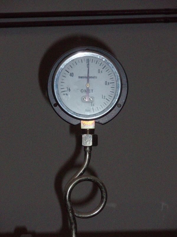 Pressure and vacuum gauge manometer, measures pressures above and below atmospheric.